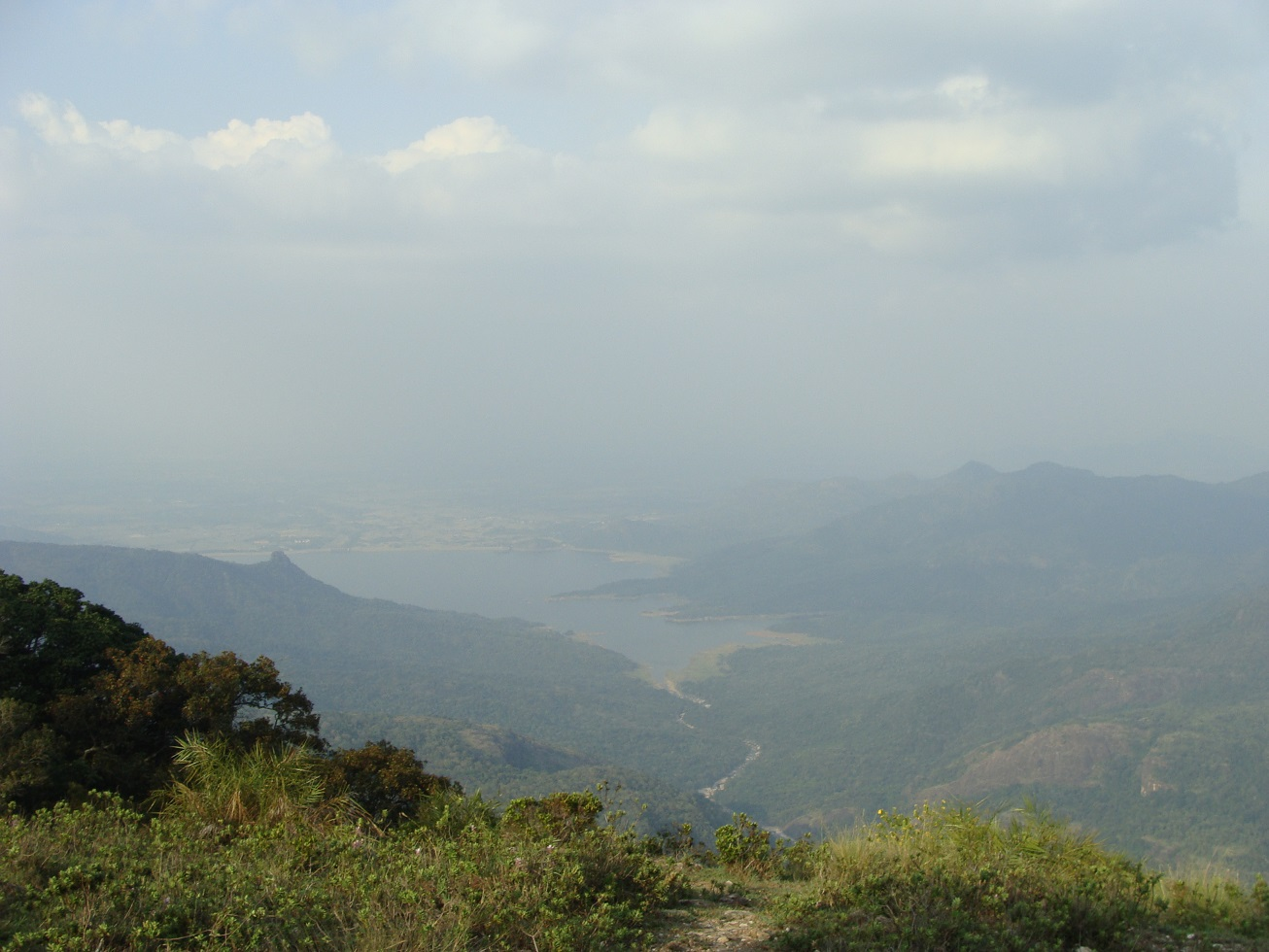 view of manimuthari dam from kuthiraivetti